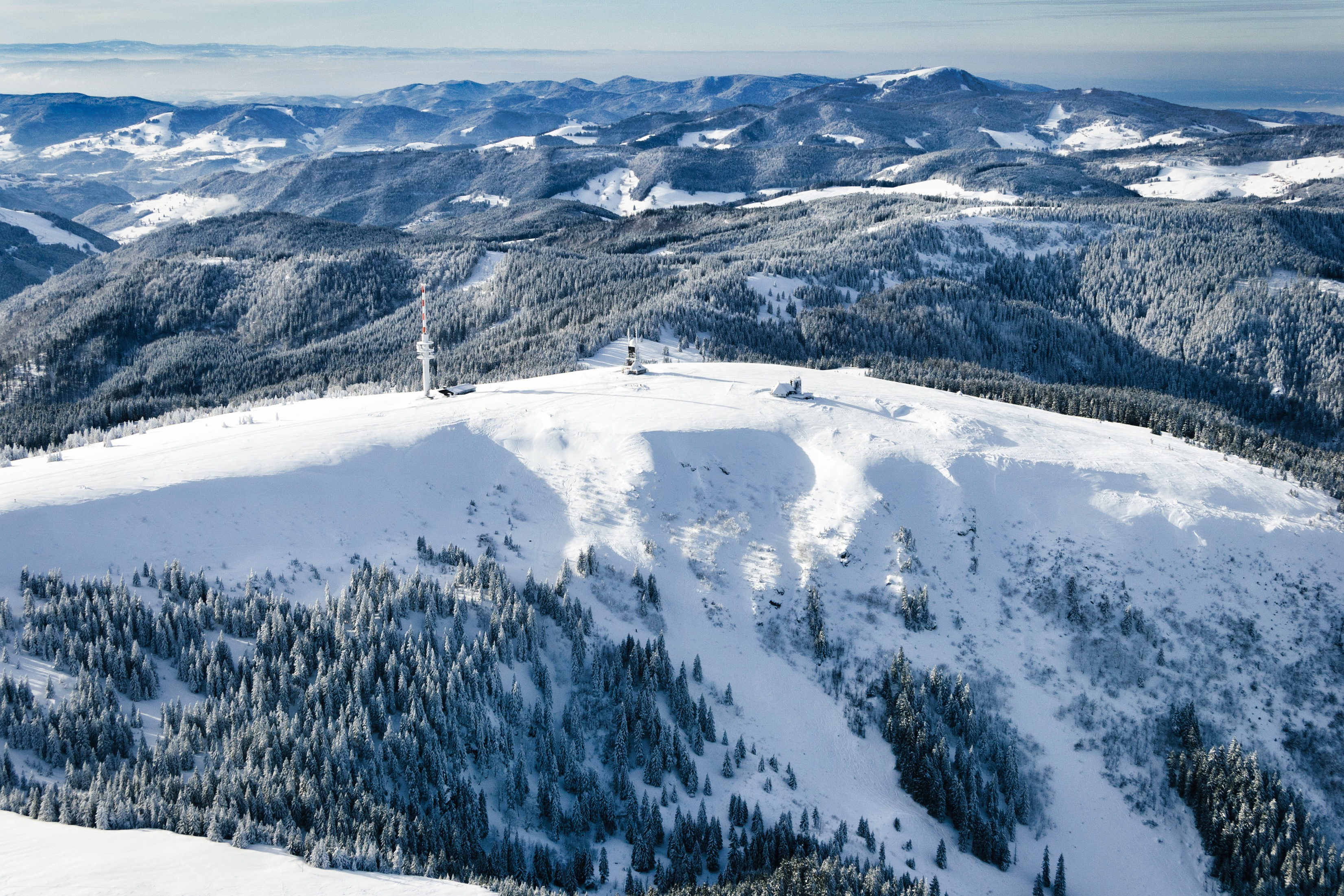 Aerial view Feldberg summit Black Forest